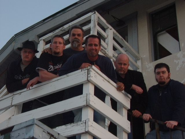 The cast of "The Haunted Wolfe Manor Live" a weekly web show that broadcasted from the mansion in 2008 and 2009.